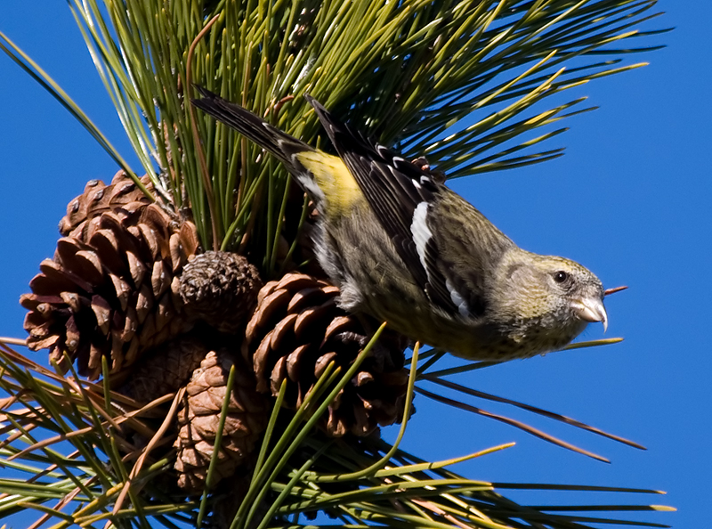 Female White-winged Crossbill taken in Jerusalem, Rhode Island